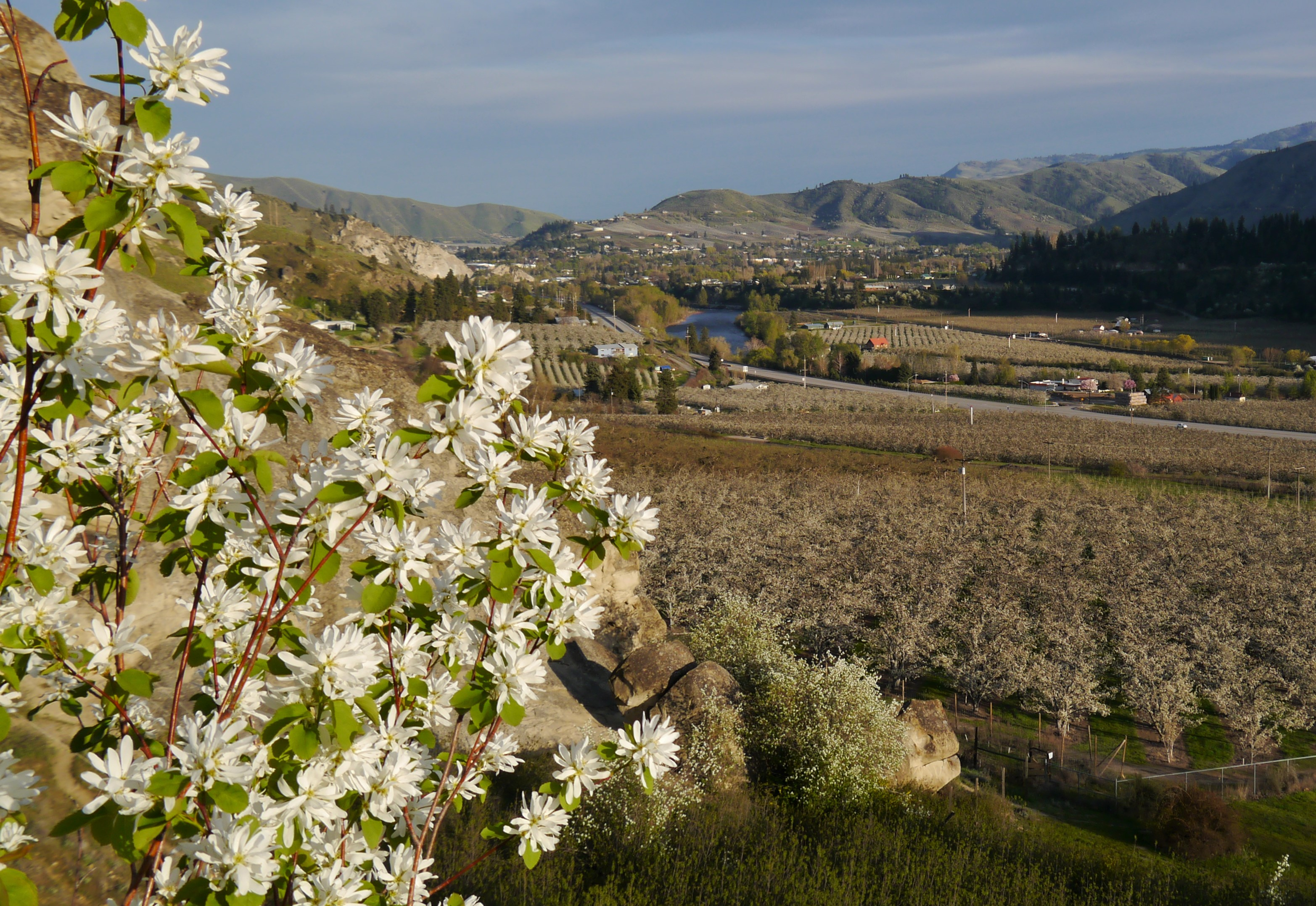 Amelanchier cusickii at Peshastin Pinnacles State Park, Chelan County Washington, orchards of mainly pear simultaneously in bloom in the valley below